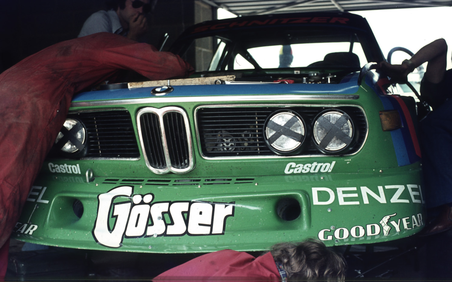 The World Championship For Manufacturers 6 Hours Silverstone (1976)